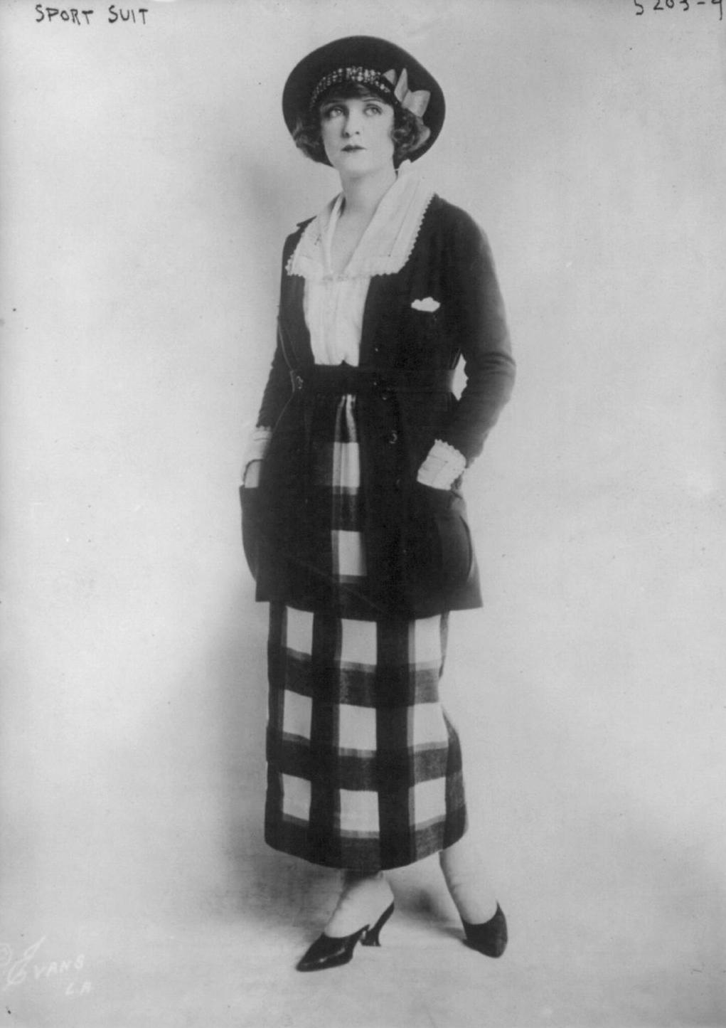 Woman modeling sport suit. (Edges cropped from original photographic print.) Signed "Evans", "LA"